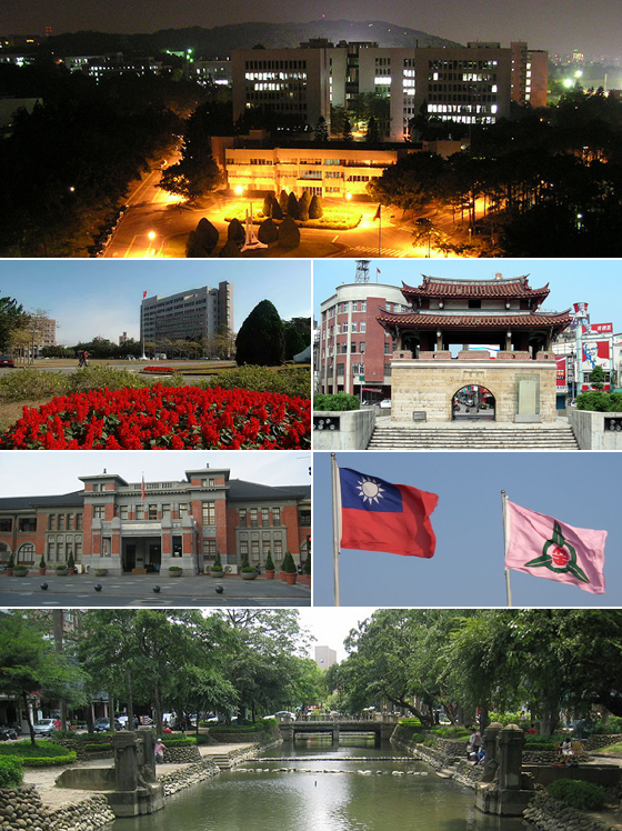 Montage of various Hsinchu City images.